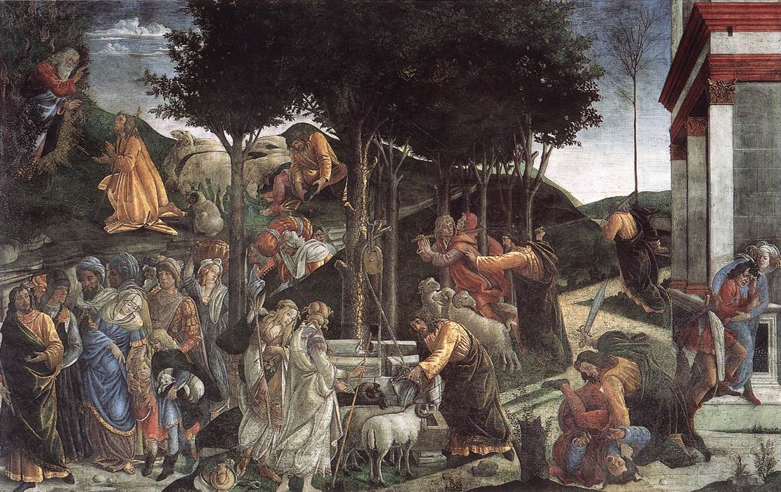 Sandro Botticelli, Scenes from the Life of Moses